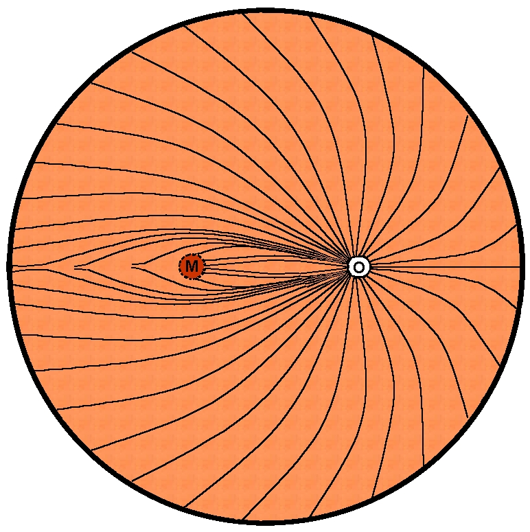 Pattern of Retinal Nerve Fibers Srpskohrvatski / српскохрватски: Shema toka vlakana vidnog živca u mrežnici